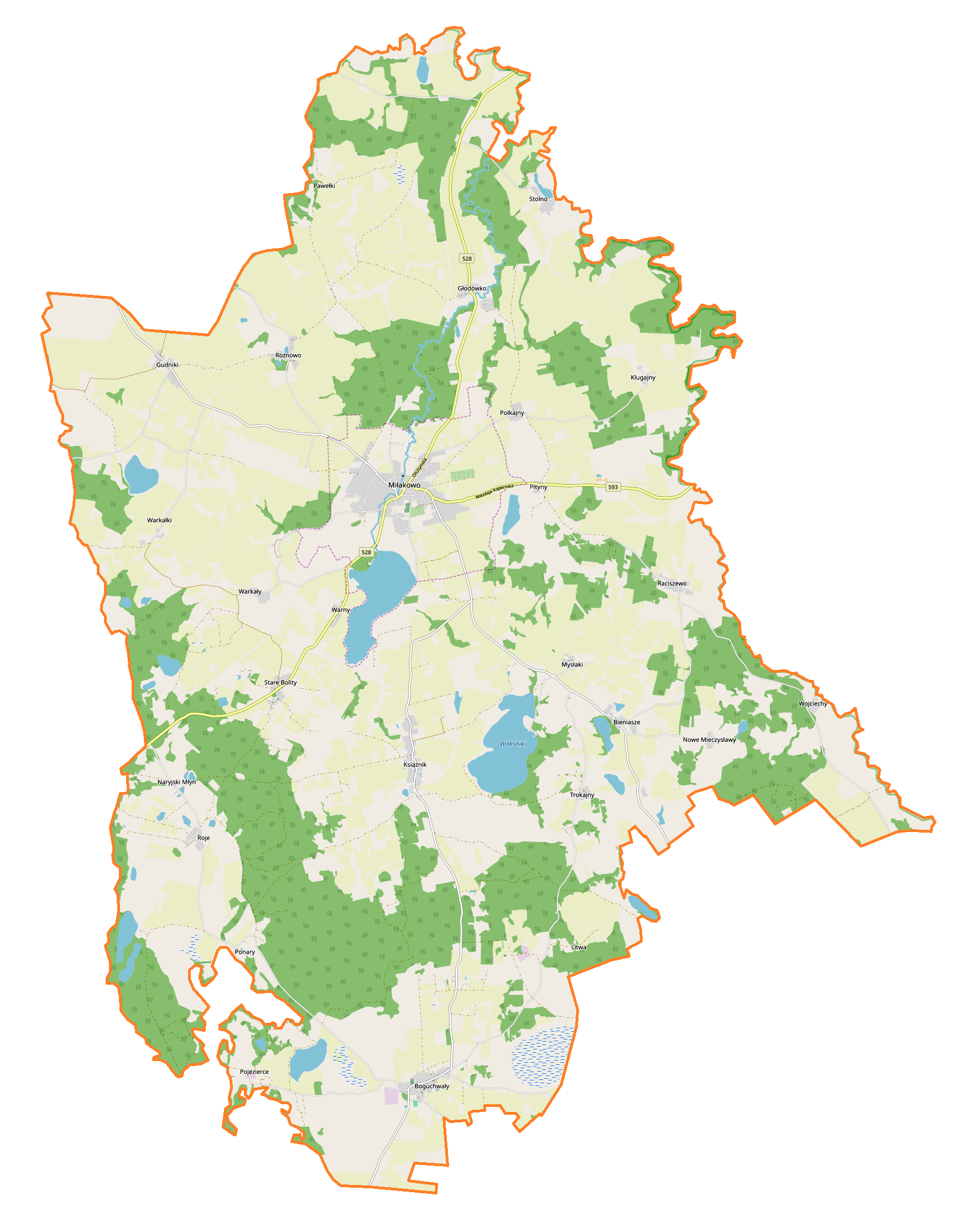 Location map